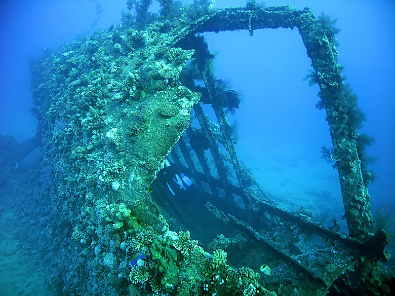 Body of the Carnatic, Sha'b Abu el-Nuhas, Gulf of Suez, Egypt